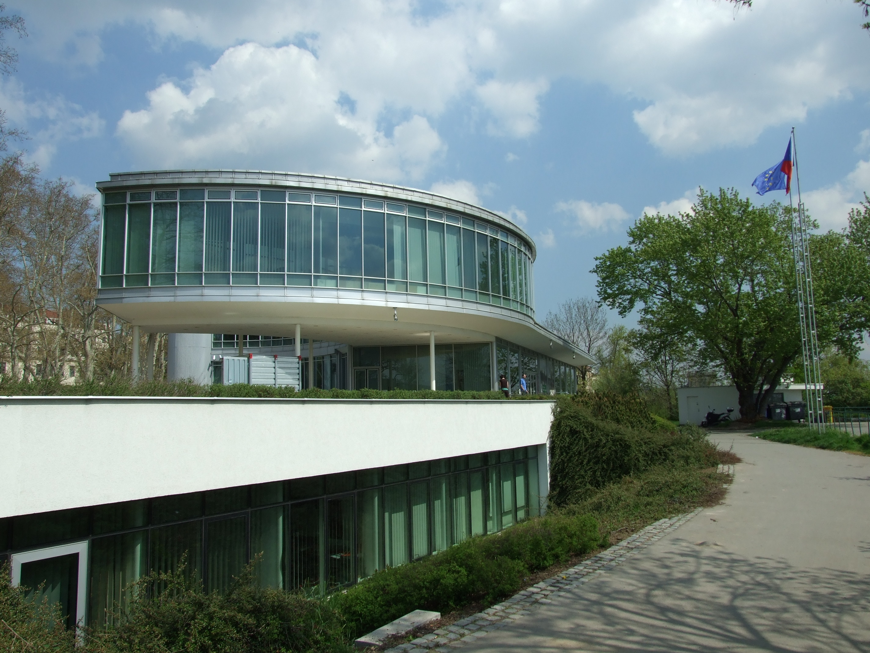 Expo 58 Czechoslovakia pavilon in Prague-Letnáhelp